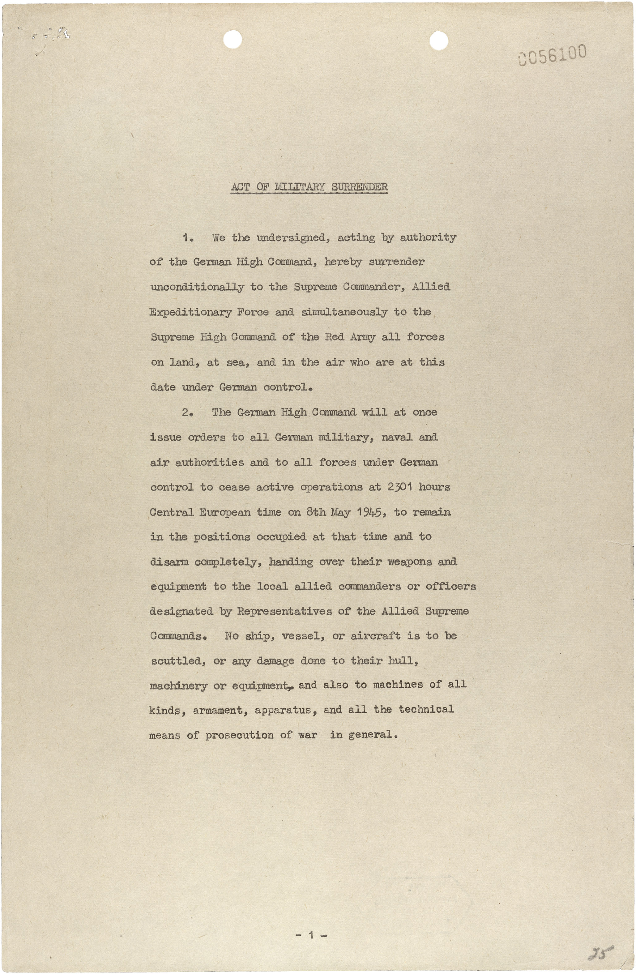 First page of the German Instrument of Surrender of May 8, 1945 signed at Berlin, Germany. This is the unconditional surrender of all German Forces to the Allied Expeditionary Force and the Supreme Allied Command of the Red Army, in which all German military operations would cease on May 8, 1945 at 2301 hours. It is signed by Generalfeldmarschall Wilhelm Keitel, Generaladmiral Hans-Georg von Friedeburg, and Generaloberst Hans-Jurgen Stumpff on behalf of the German High Command, Marshal Georgy Zhukov on behalf of the Supreme High Command of the Red Army, and Air Chief Marshal Arthur William Tedder on behalf of the Allied Expeditionary Force at Berlin, Germany.